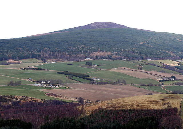 Ben Aigan Taken from end of Blue Hill plantation